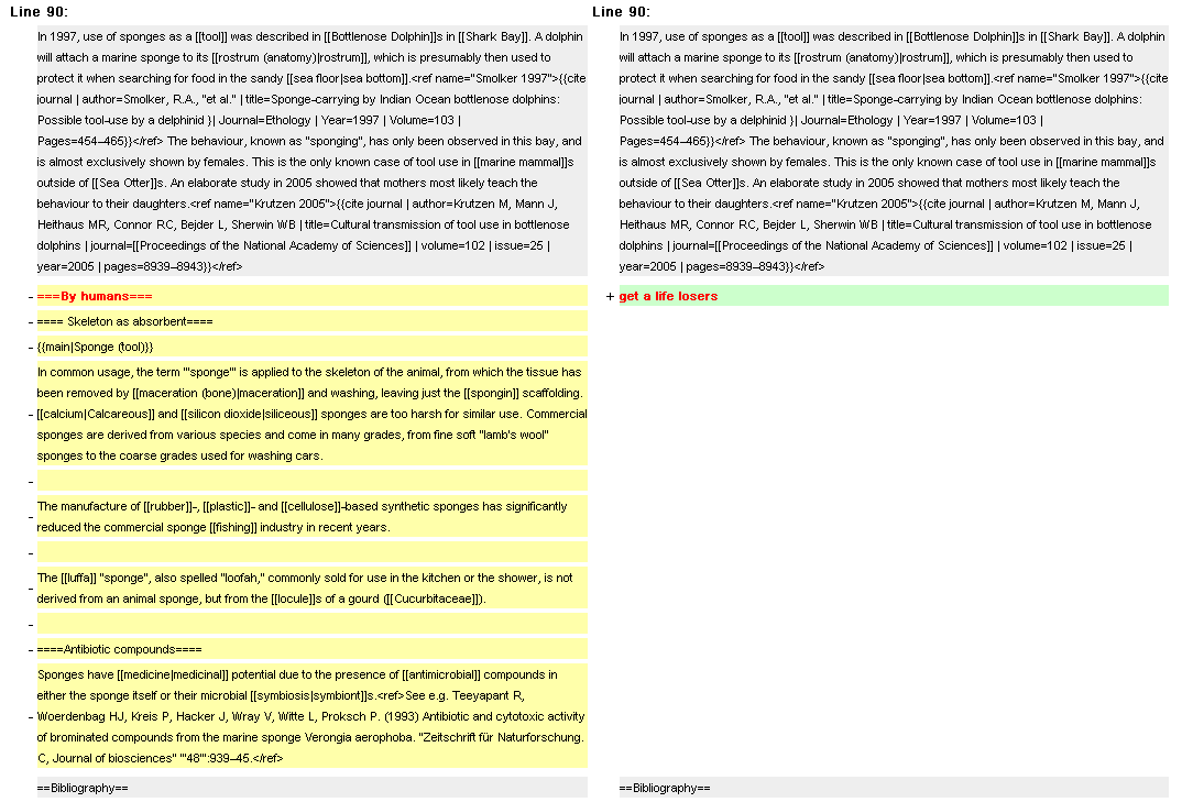 A diff which shows vandalism to Wikipedia's article on sponges.